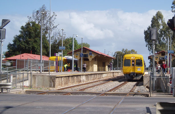 TransAdelaide railcars at Woodville station 11 October 2005. On left 3107/3108 with 09.30 Adelaide - Grange, on right 3117/3118 with 09.35 Grange - Adelaide